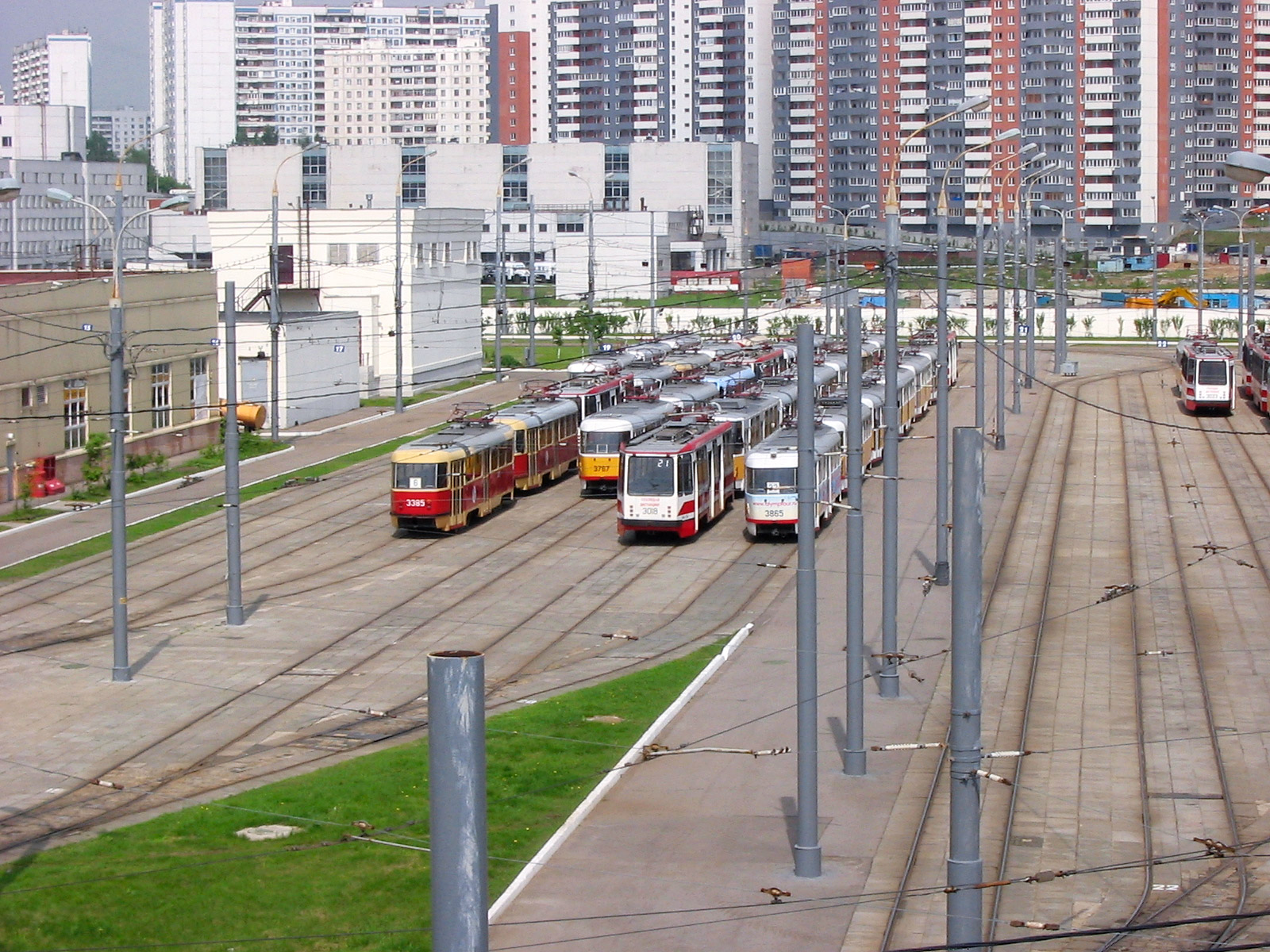 Moscow tram, Krasnopresnenskoe depot (#3).